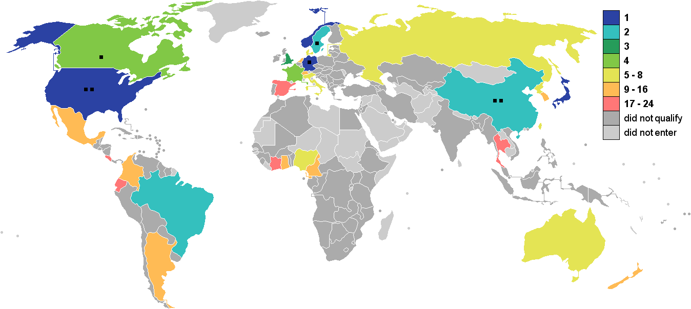 world cup wommen best result and hosts